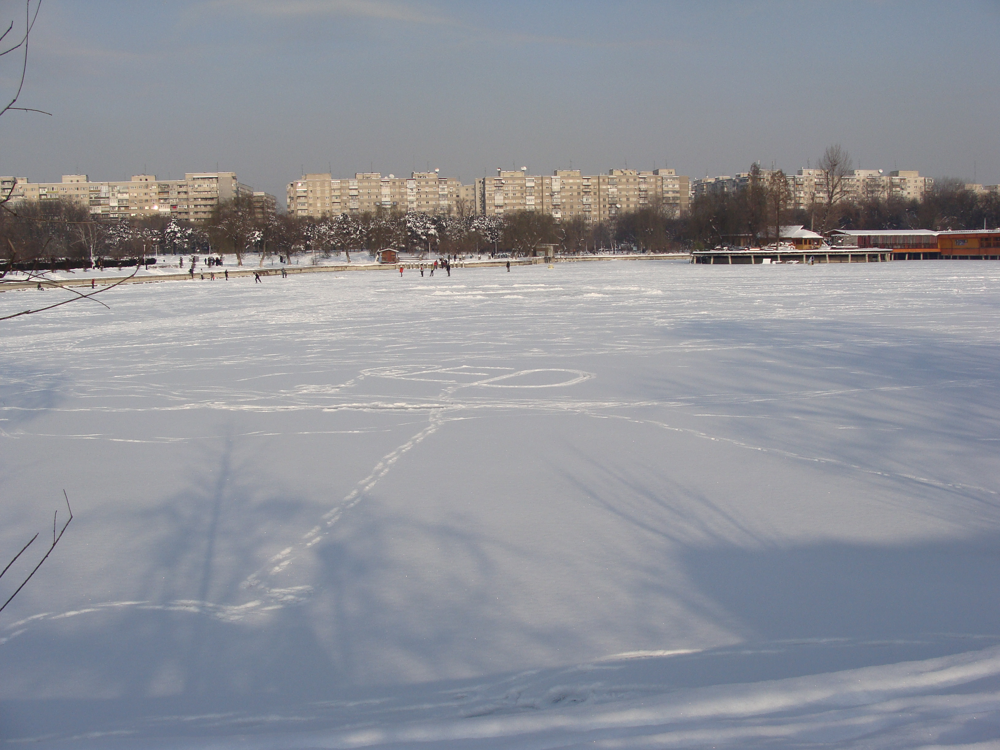 Tineretului Park